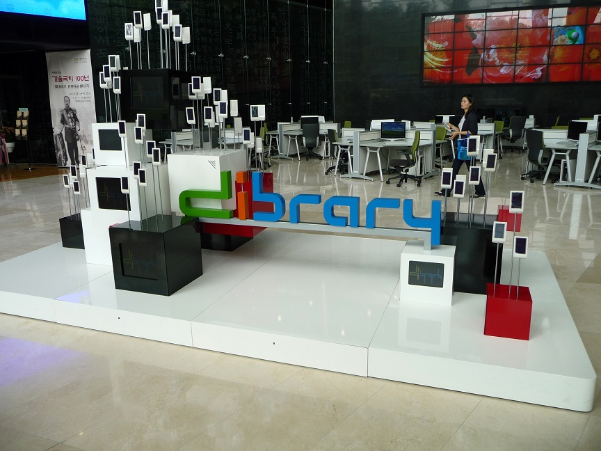 "The symbolic monument representing the digital library displays customized videos based on a user recognition function using AMOLED, an advanced material." About this photo: when in Seoul, one of our library staff members took the opportunity to visit the National Digital Library of Korea# Dibrary is the world’s first hybrid library combining digital and analogue ideas# Dibrary consists of “Dibrary Portal,” a virtual space, and a physical service space called “Dibrary Information Commons”# - # About Dibrary#